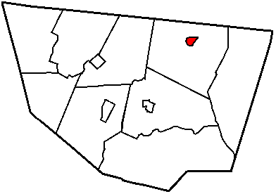 Map of Sullivan County with township and municipal bondaries is taken from US Census website [1] and modified by User:Ruhrfisch in August 2005. My modifications licensed under the GNU Free Documentation License. Source: US Census website [2], modified by User:Ruhrfisch